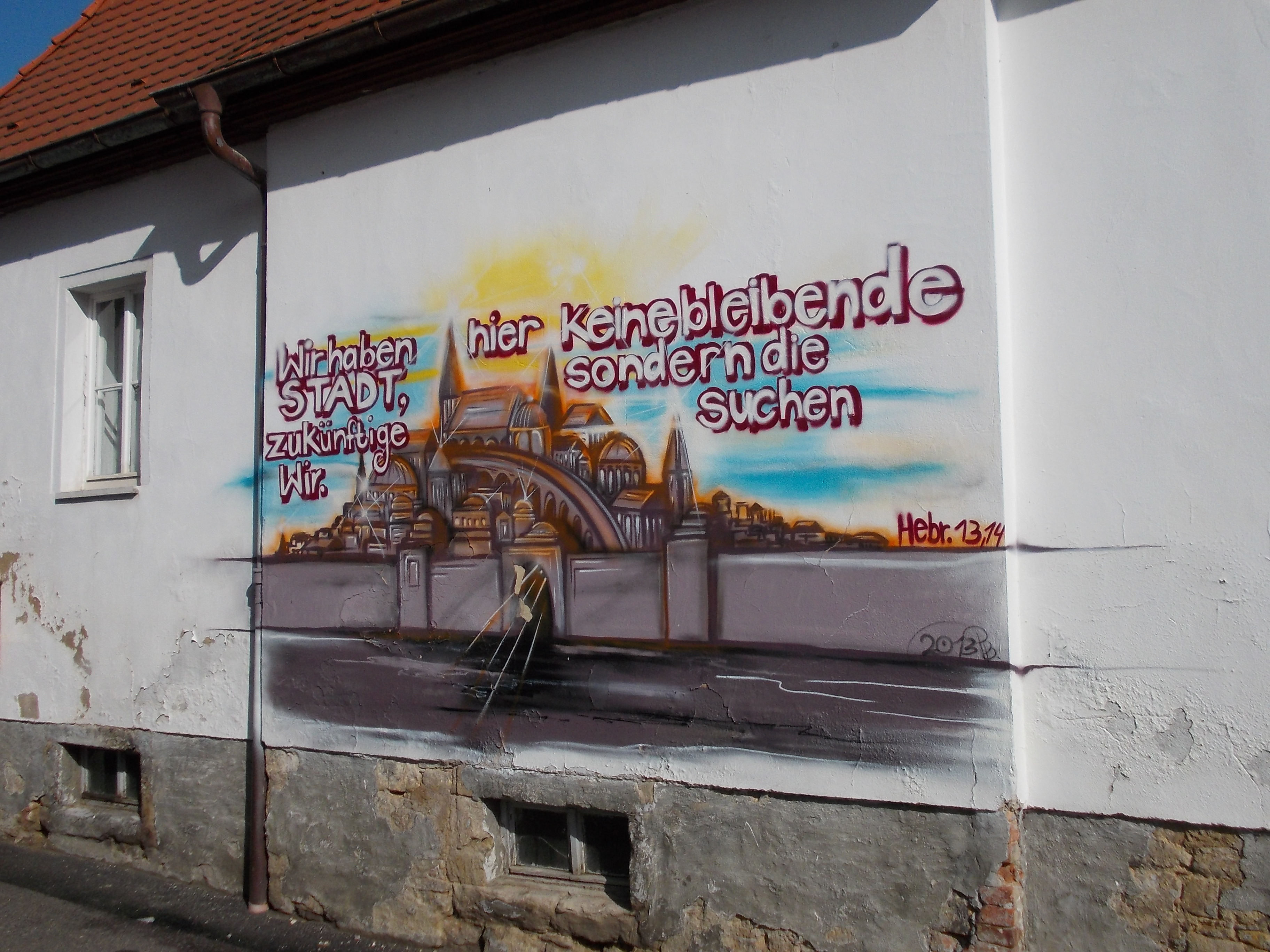 Mural at the Braunsbedra rectory (district of Saalekreis, Saxony-Anhalt)